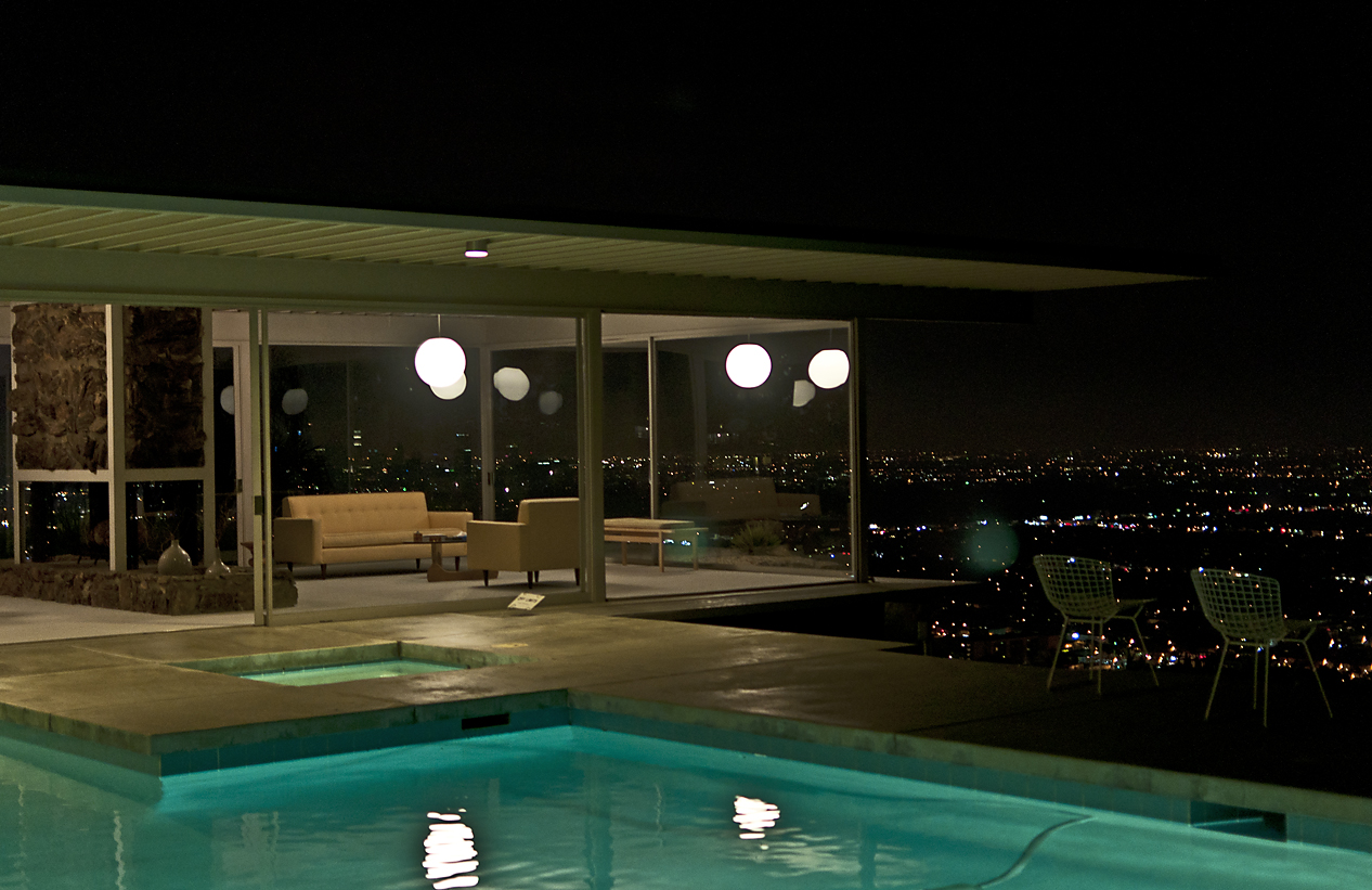 The Case Study House No. 22 — Stahl House — Hollywood Hills, Los Angeles, California.